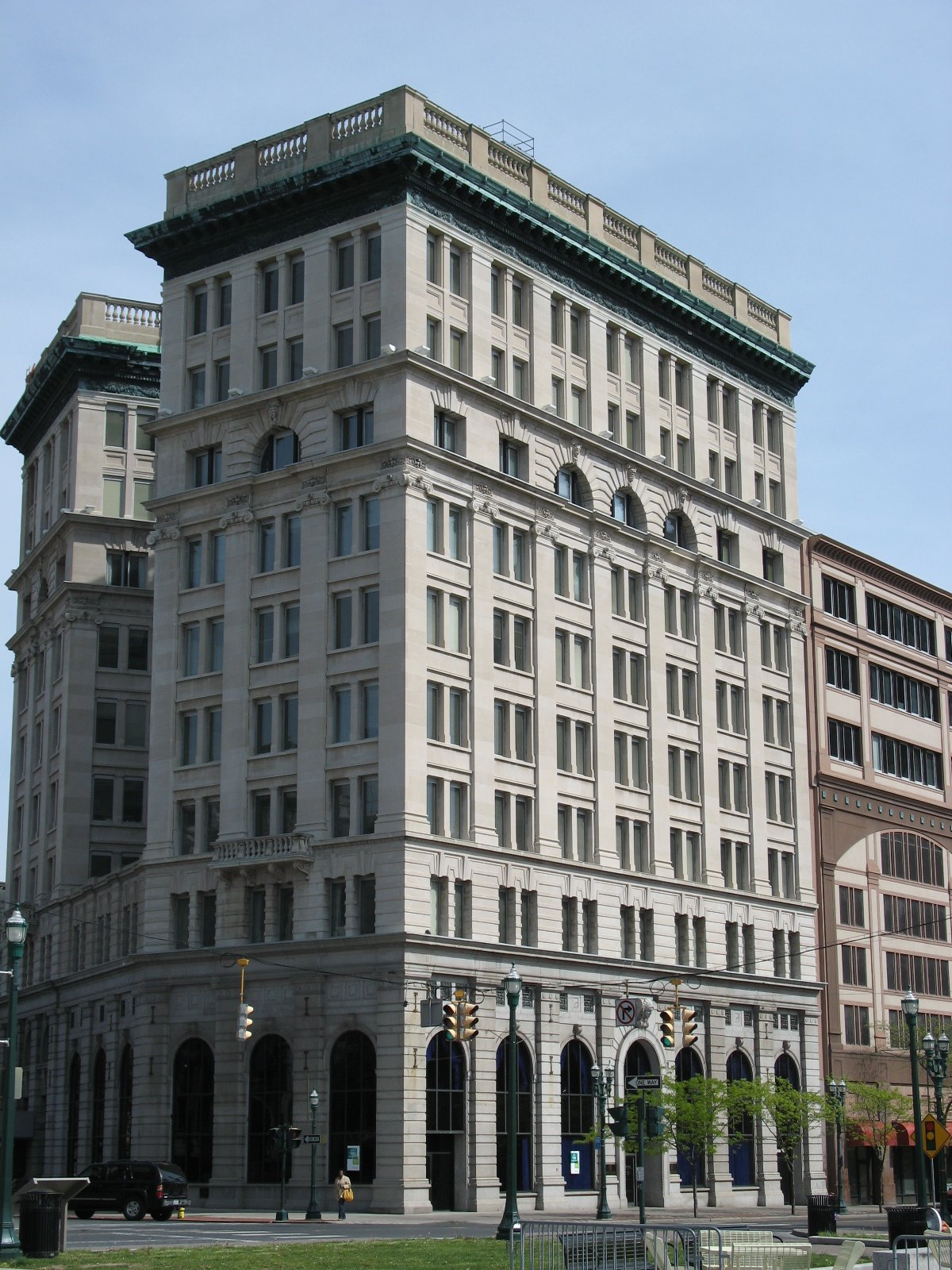 Picture I took of the M&T Bank Building (Onondaga County Savings Bank Building) while walking through Syracuse.